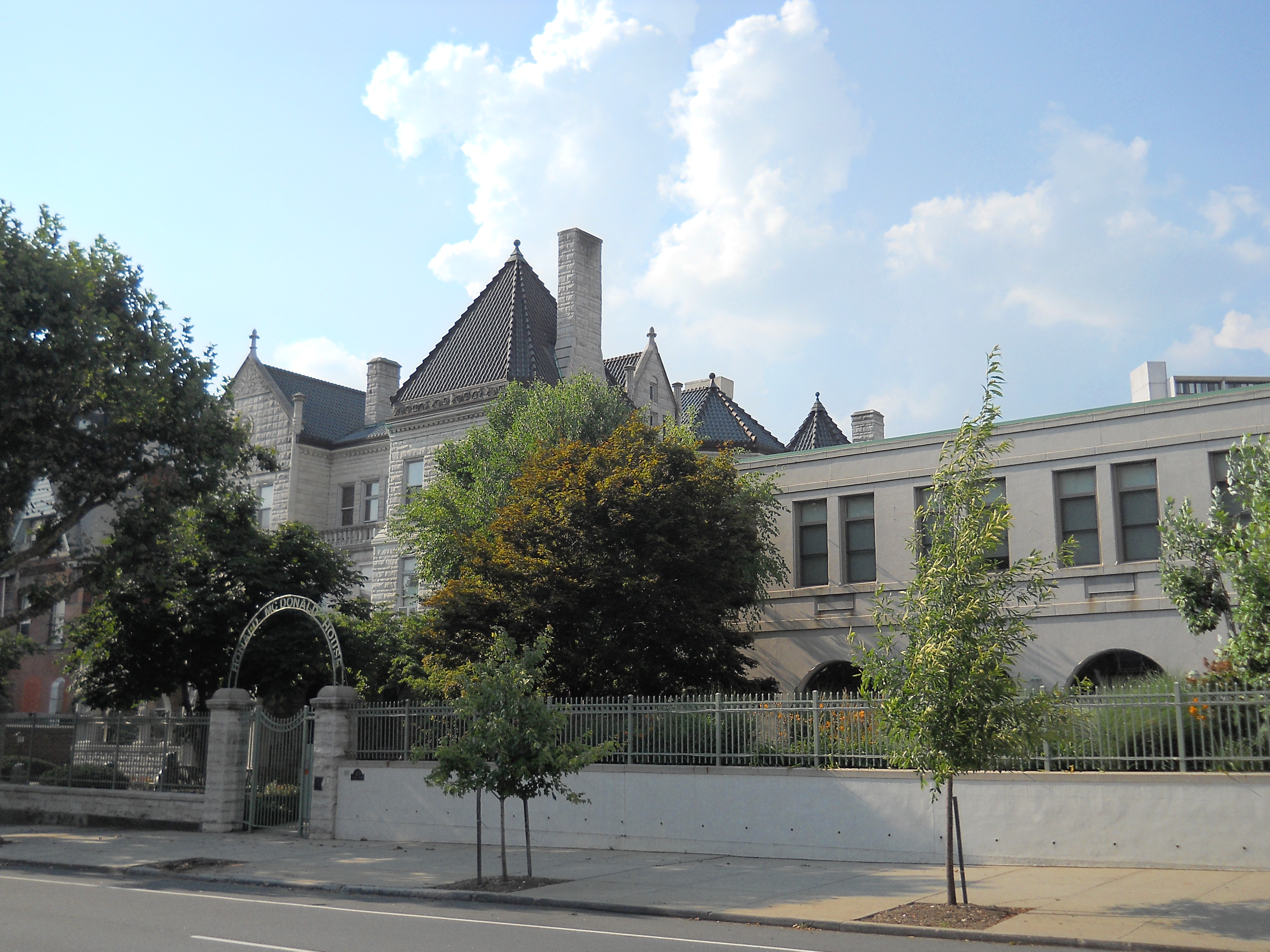 Philadelphia Ronald McDonald House, Chestnut St, West Philadephia.